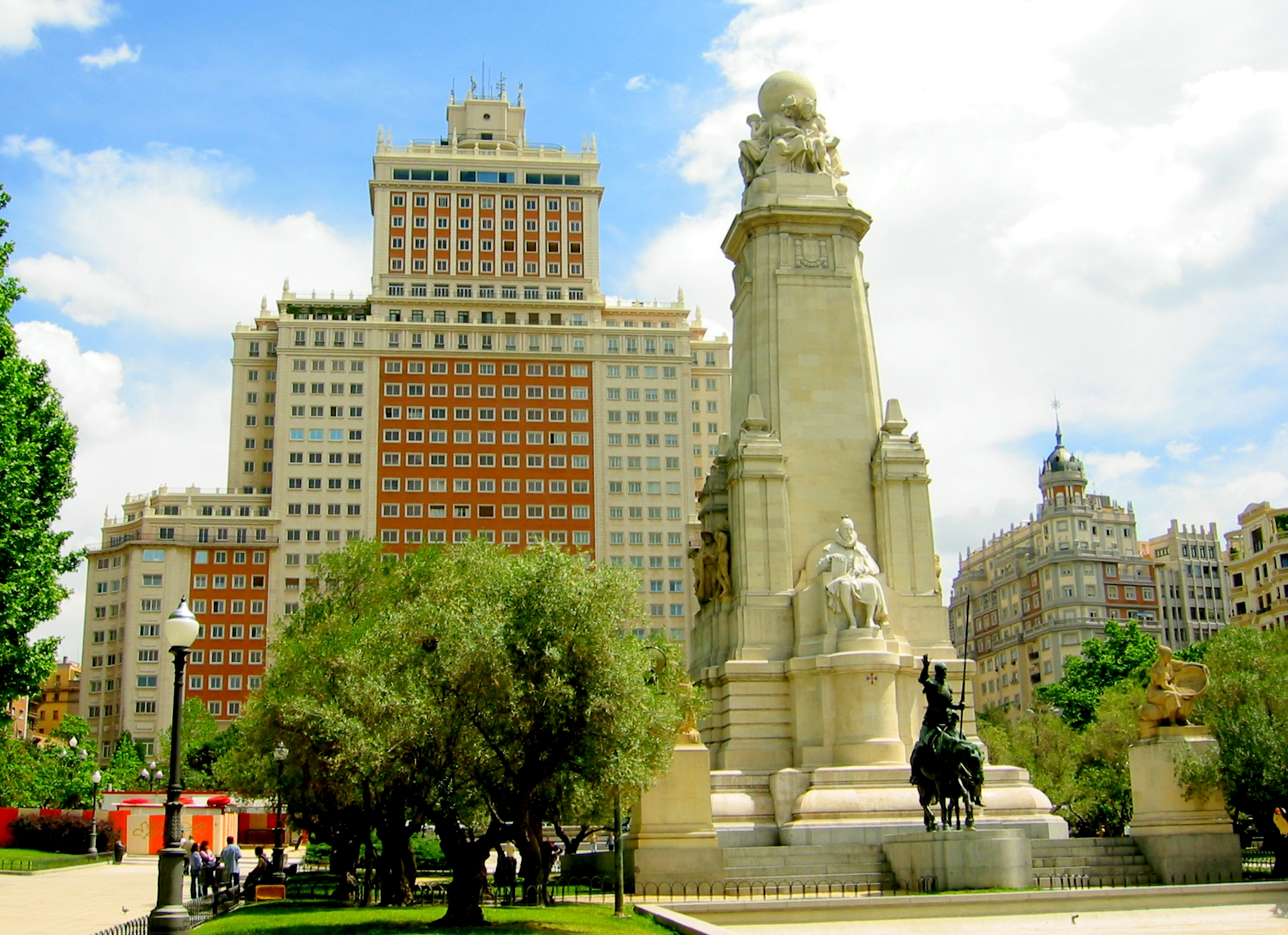 Plaza de España ("Spain Square") in Madrid. At the right, the monument to Cervantes (1925–30, 1956–57). In the background, the Edificio España.